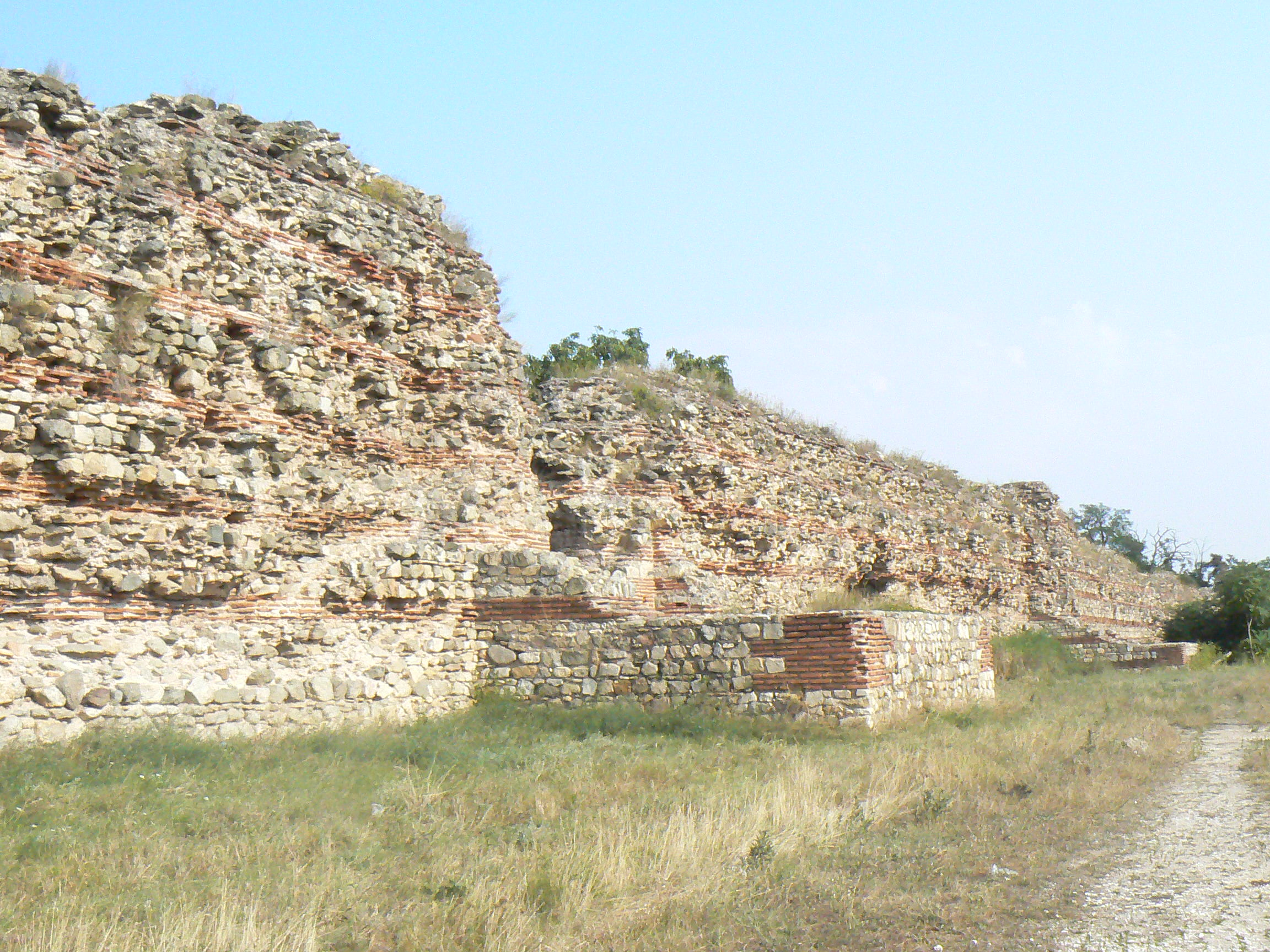 The southern walls of the Roman fortress in Hissarya, Bulgaria.